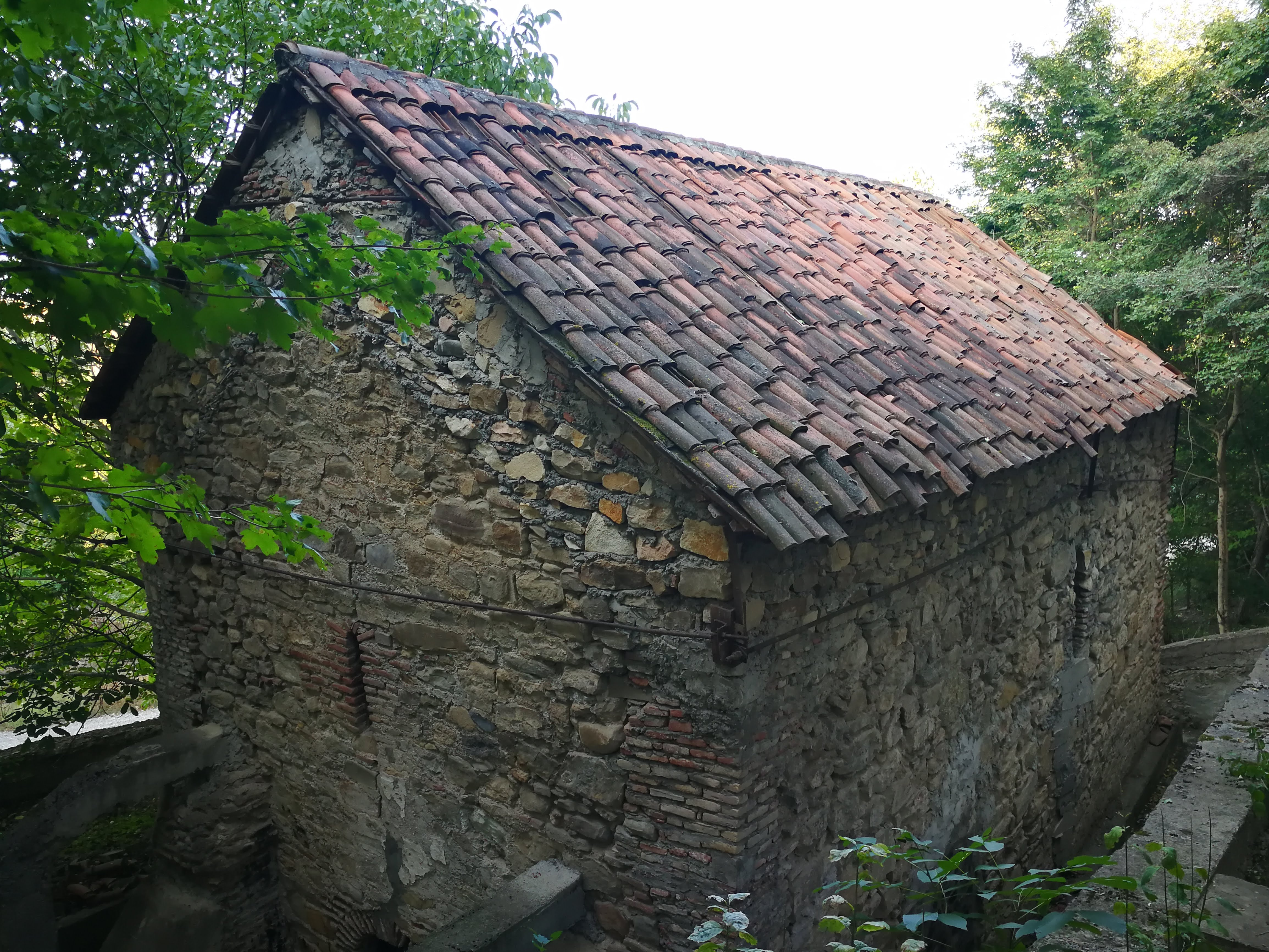 Saint George chirch in Abano village, Kareli municipality, Georgia